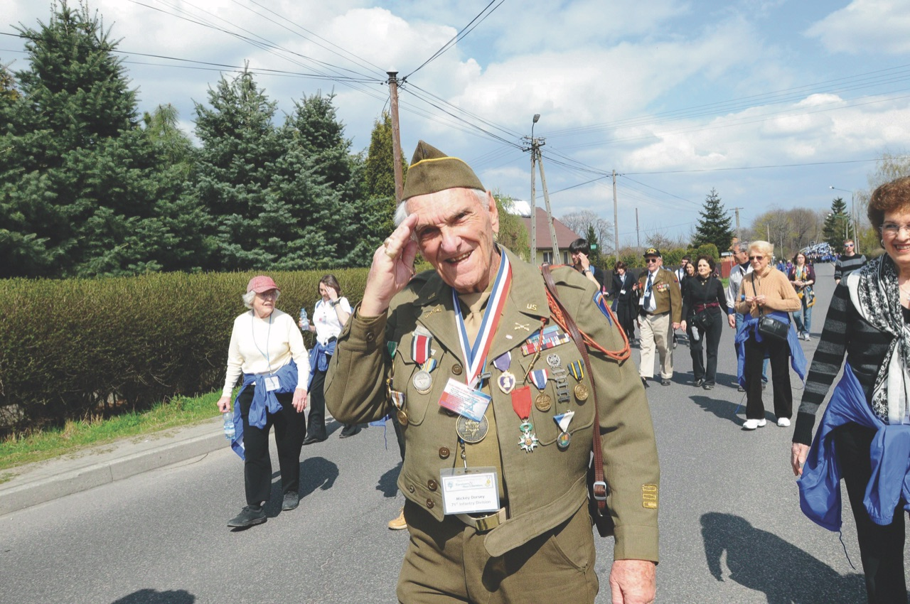 US Liberator Mickey Dorsey on the 2012 March of the Living where he met Joe Mandel of Toronto, who he liberated from a German camp in 1945.